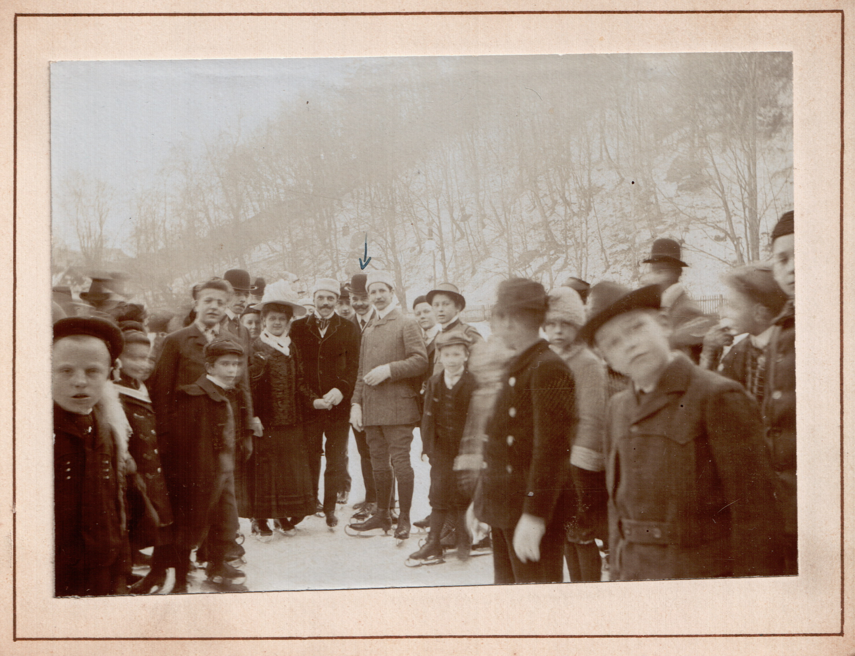 Ice skating in Graz, photograhed at the 7. of february 1909